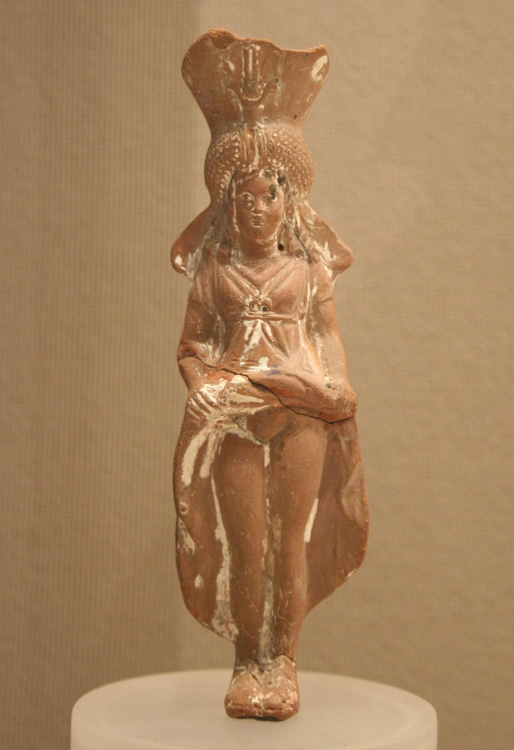 Isis-Aphrodite; provenance unknown, 2nd to 1st century BC